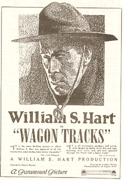 Newspaper advertisement for the 1919 American film Wagon Tracks.